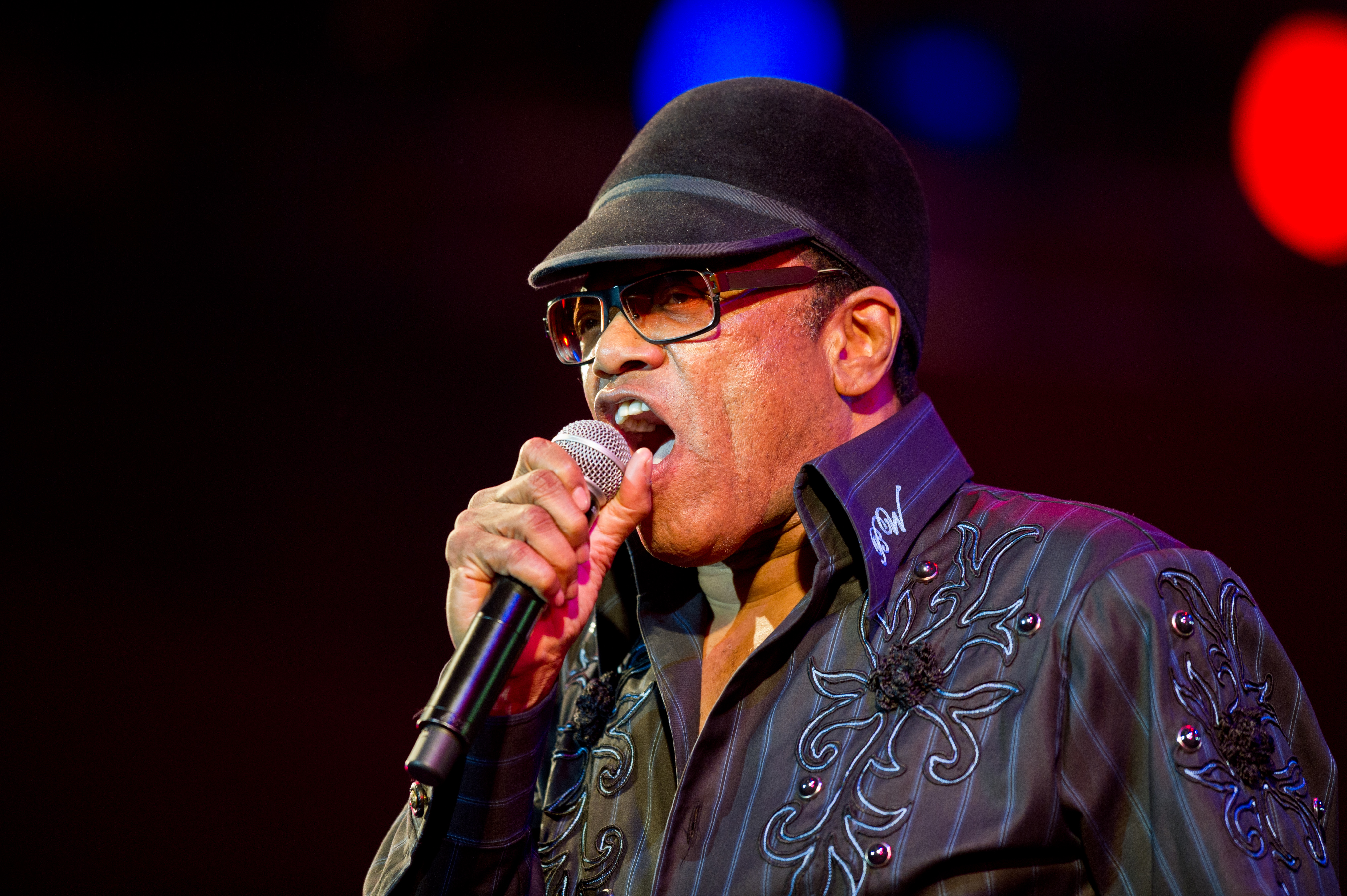 Bobby Womack performing on Orange Stage with Gorillaz on Roskilde Festival 2010